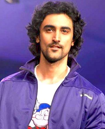 Kunal Kapoor walks the ramp for Vero Moda show.